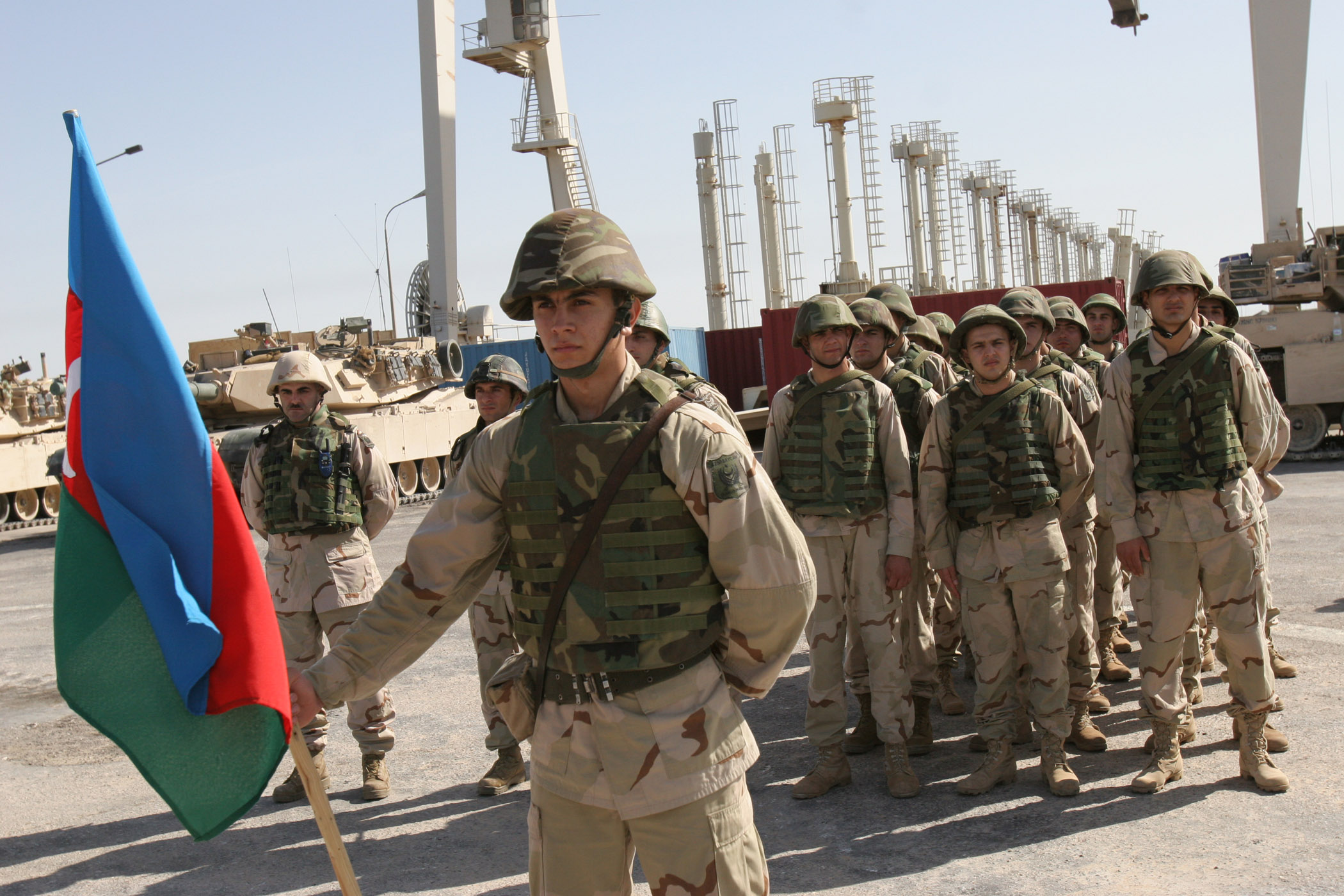 A formation of Azerbaijani soldiers stands at parade rest during a memorial ceremony for the US Marines killed in Operation Matador. The Azerbaijanis attended every Marine memorial service in Camp Hadithah Dam, Al Anbar, Iraq. They follow the Marines through the line at the end of the service to pay their respects to their fallen allies.